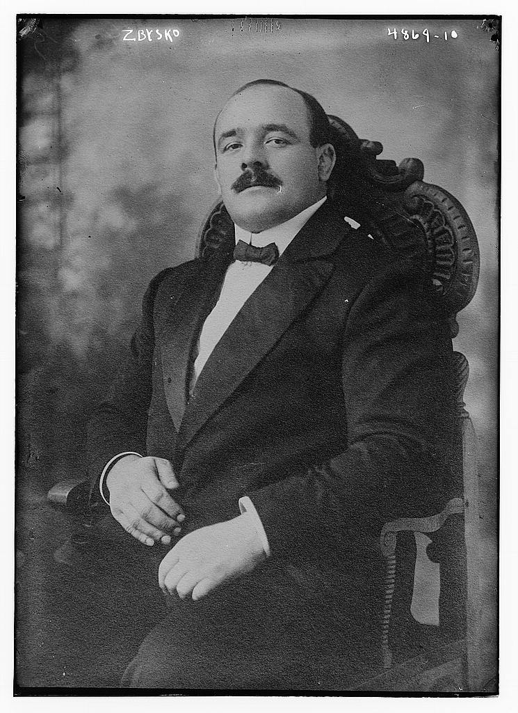 Stanislaus Zbyszko in 1919